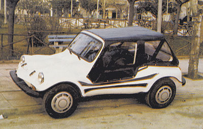 A picture of a Pan-Car buggy taken in Athens (from my book 'Made in Greece').